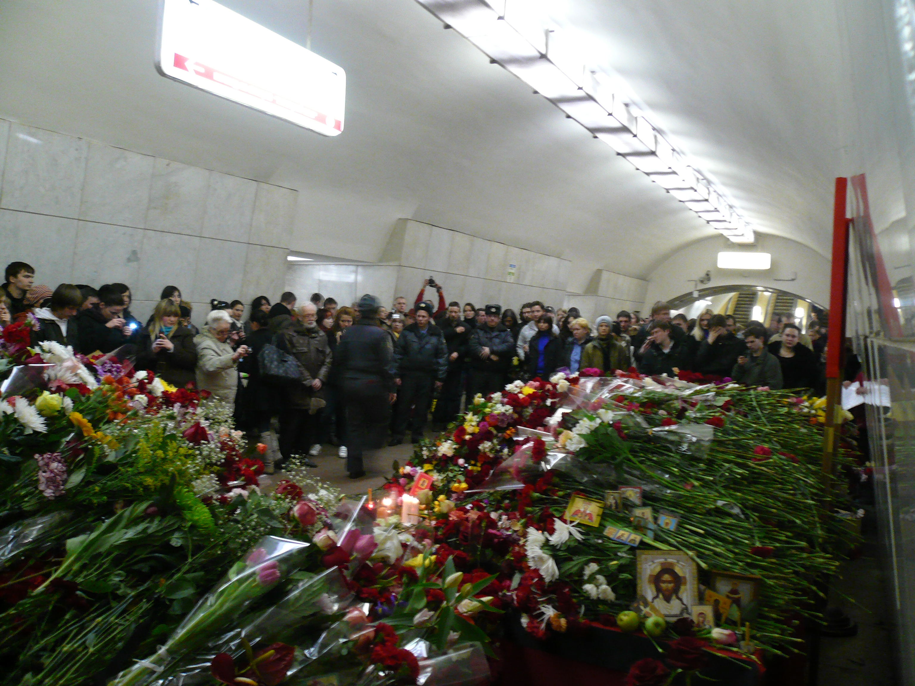 Flowers at Lubyanka metro station in Moscow in honour of the dead in terrorist act. Evening of the next day when explosion took place.